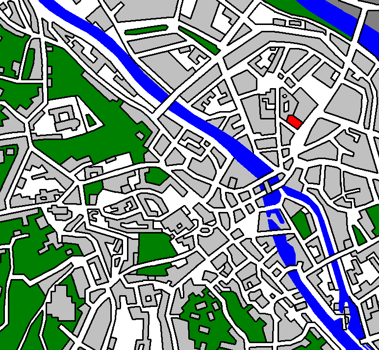 locator map in the German town of Bamberg